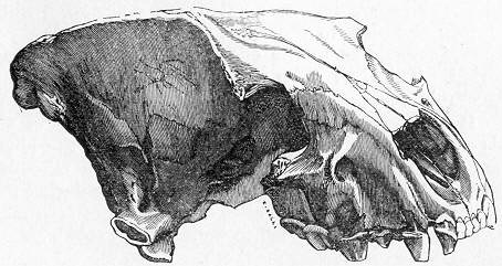 Fig. 269.—Skull of Cave Hyena (Crocuta crocuta spelaea), one-fourth of the natural size. Post-Phocene, Europe.